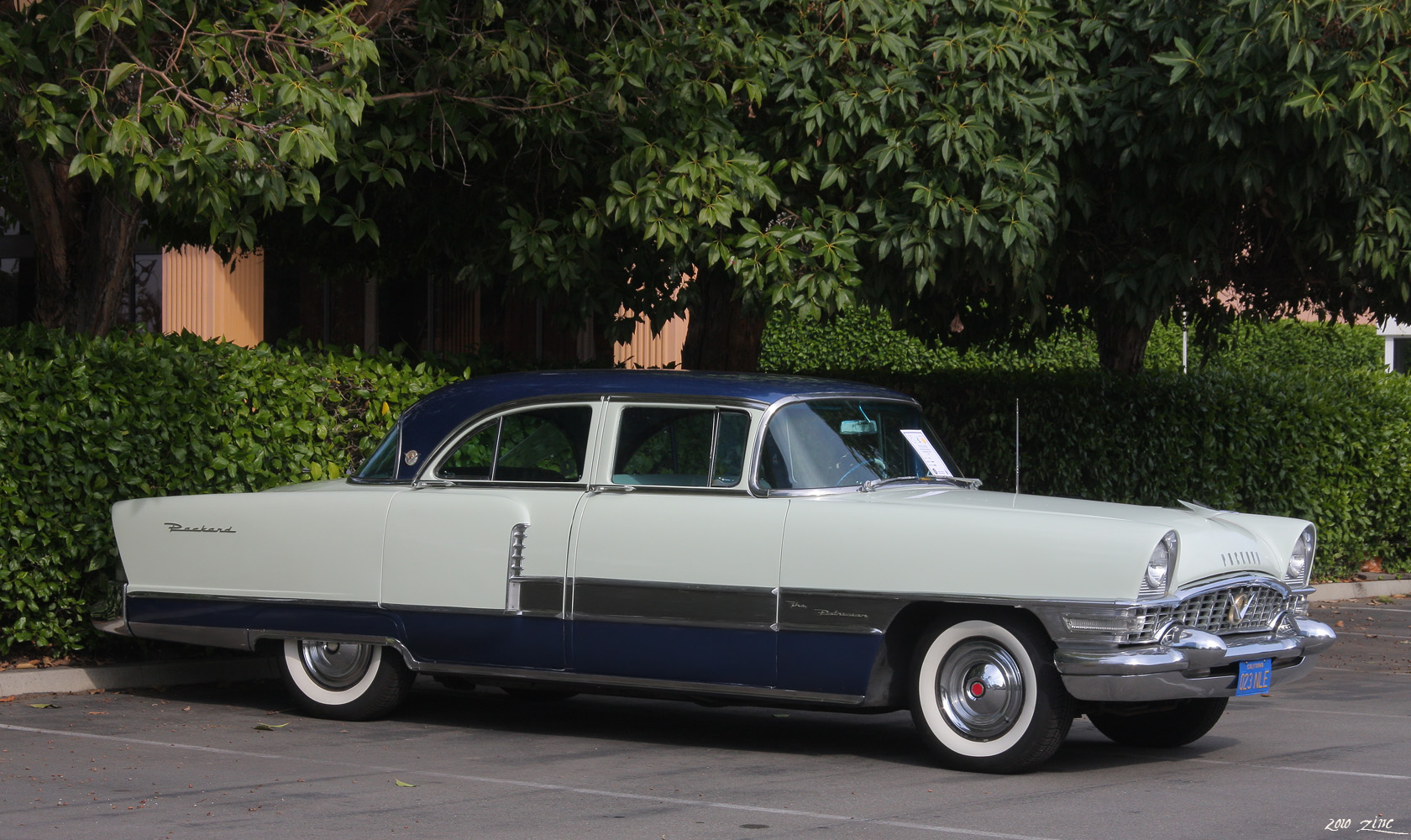 1955 Packard Patrician Touring Sedan model 5580-5582 painted in Norwegian Forest Metallic and Shannon Green; Packard Club at the Double Tree Hotel, Orange, CA, Jan 29, 2010